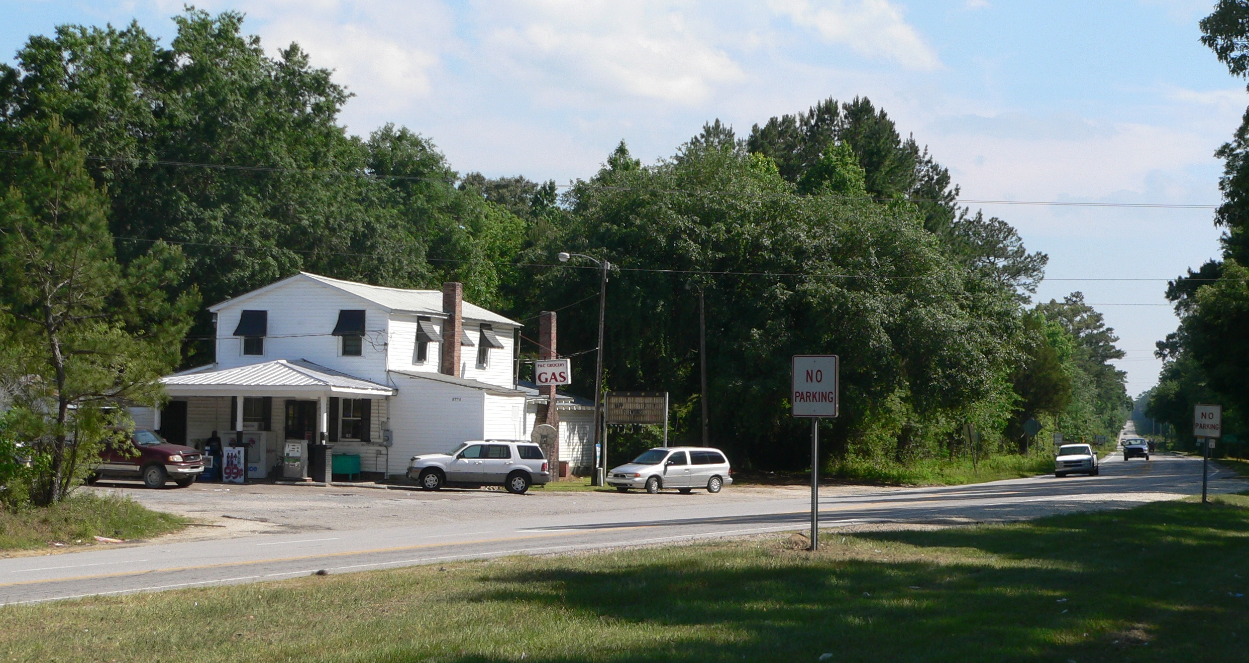 Huger, South Carolina. The road in the photo is South Carolina Highway 41; the cars on the highway are coming from the south.